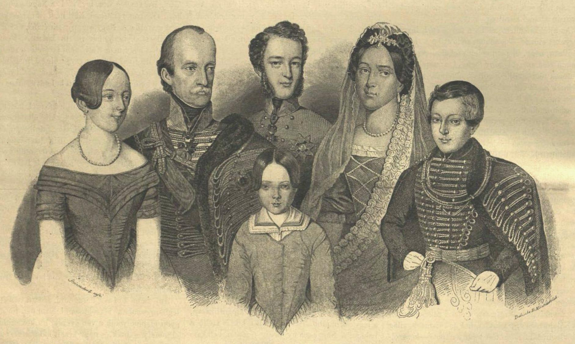 Archduke Joseph Anton Johann of Austria and his family